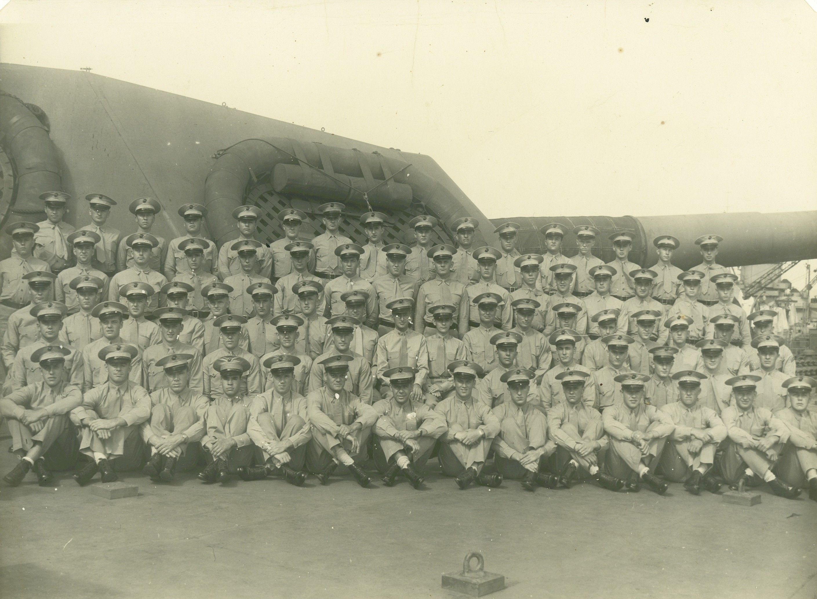 Image of members of the detachment aboard the USS West Virginia after the attack on Pearl Harbor. From the Richard G. Hall Collection (COLL/5278) at the Marine Corps Archives and Special Collections OFFICIAL USMC PHOTOGRAPH